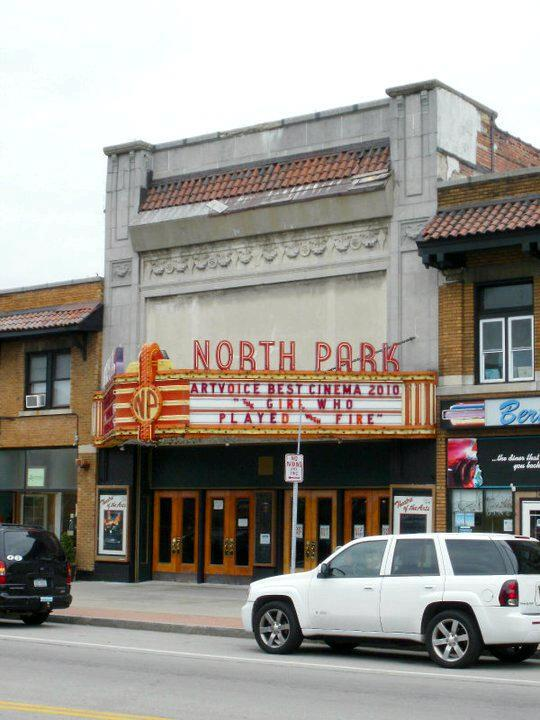 The North Park Theatre is a longstanding mainstay of Hertel Avenue. Built in 1920 as part of the Shea chain of movie houses, the theatre boasts an exquisite Beaux-Arts design that is more monumental in scale than it appears from the street, and an interior whose proscenium, light fixtures and other decorative elements add an Art Deco influence. Since 1968, the North Park Theatre has been part of the Dipson chain of cinemas. Here it is showing the Swedish film The Girl Who Played with Fire (2009) (Flickan som lekte med elden).